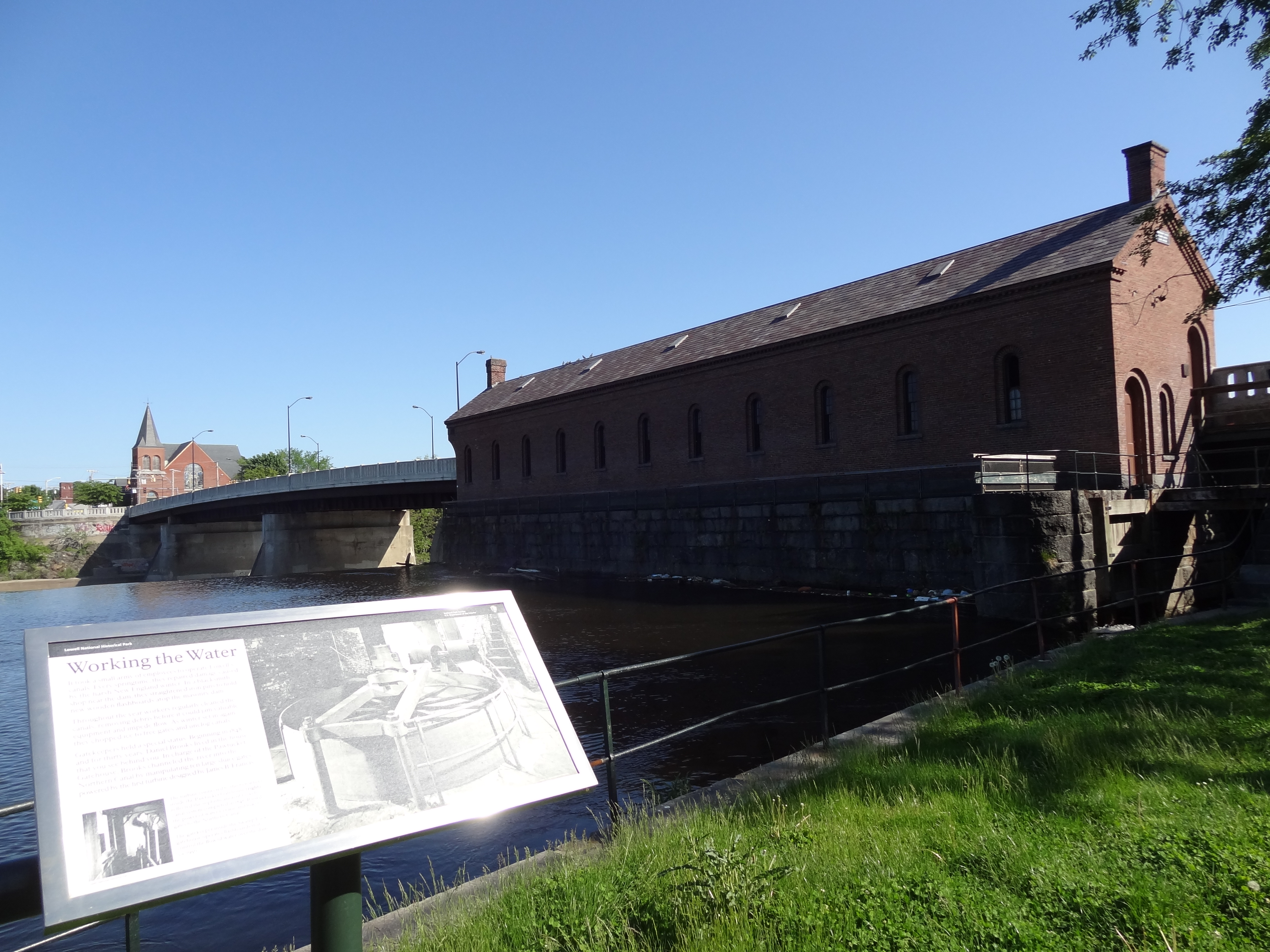 Pawtucket Gatehouse, O'Donnell Bridge, Pawtucket Congregational Church and a 'Working the Water' historical plaque. Located near the the southeast end of the O'Donnell Bridge in Lowell, Massachusetts.